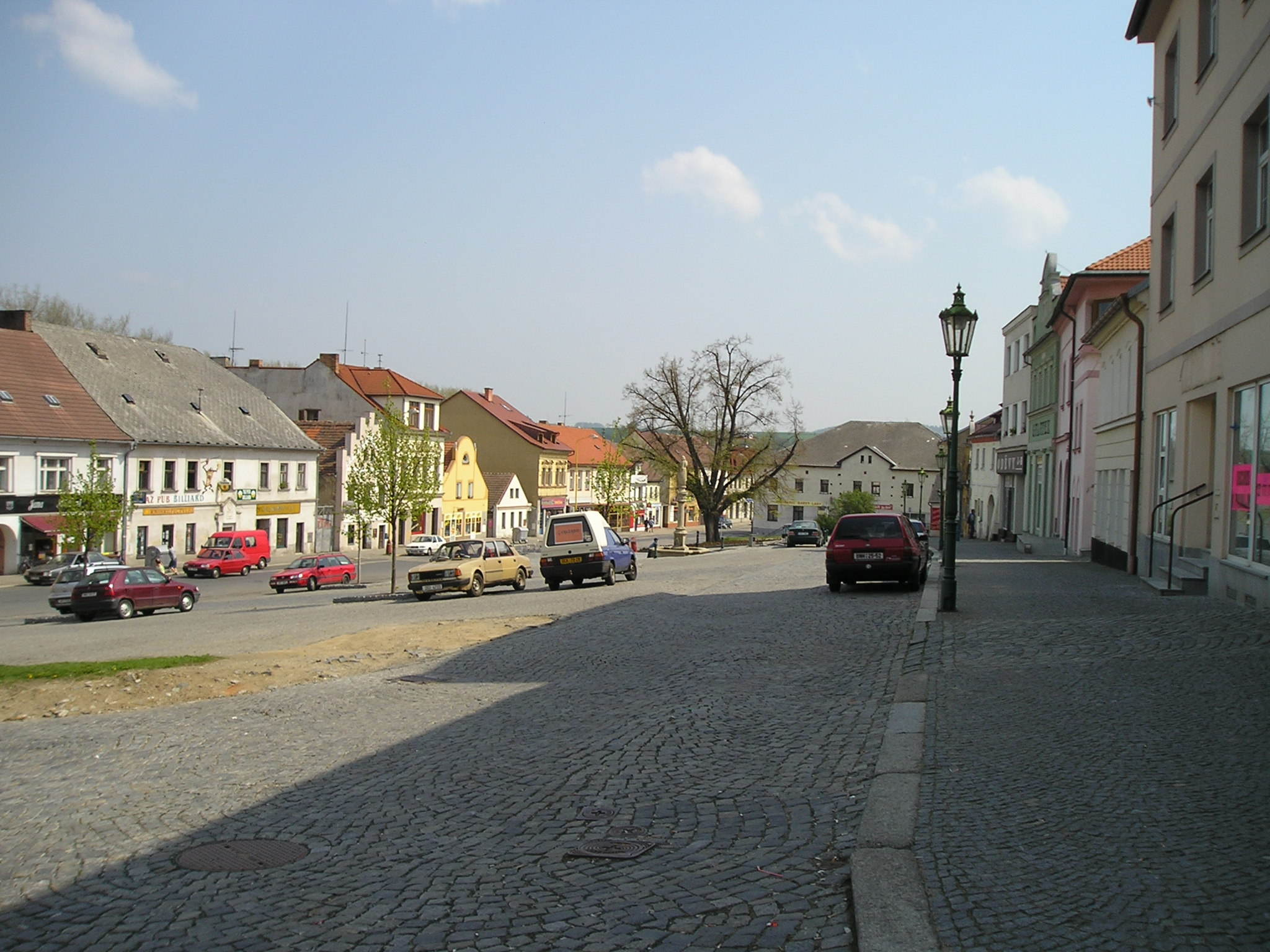 Vlašim, okres Benešov (Town in the Czech Republic)